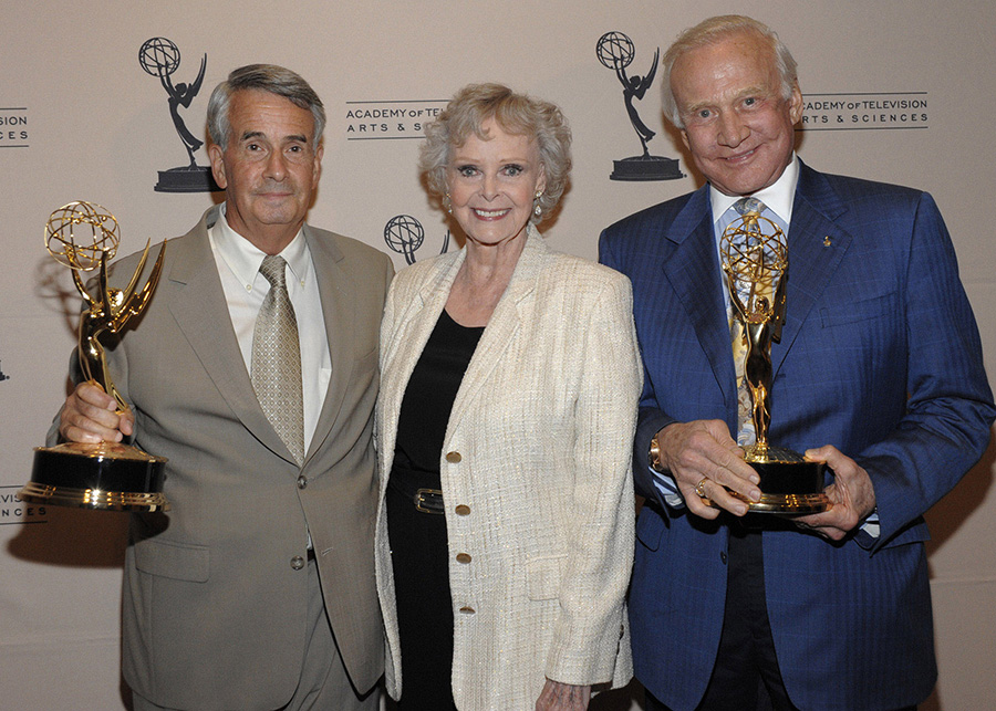 The NASA Television Receives Philo T. Farnsworth Primetime Emmy Award: Goddard Space Flight Center Engineer Richard Nafzger, actress June Lockhart and Apollo 11 astronaut Buzz Aldrin at the 61st Primetime Emmy Engineering Awards on August 22, 2009.